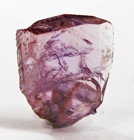 Axinite-(Mg) Locality: Merelani Hills (Mererani), Lelatema Mts, Arusha Region, Tanzania Size: 2.1 x 1.5 x 0.5 cm A sharp, gemmy, pale lavender-colored crystal of the rare species axinite-(Mg) which rarely comes from this mine (found summer, 2010). It is very glassy, with sharp beveled edges. Weighs 9.26 carats or nearly 2 grams.